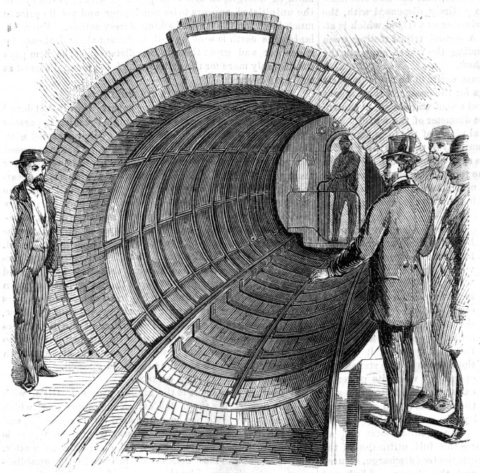 Tunnel entrance of the Beach Pneumatic Railway as seen from one of the two stations. The keystone actually spelled the words PNEUMATIC / 1870 / TRANSIT. The car with the conductor outside is just approaching.